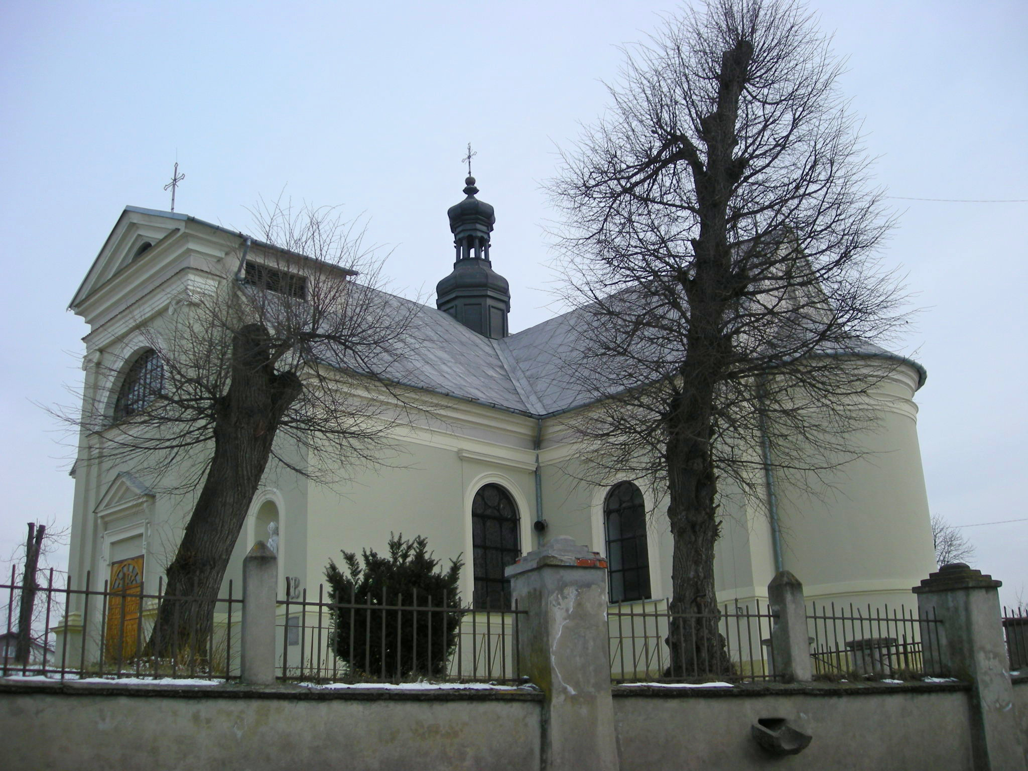 The church in Osiek, Poland.